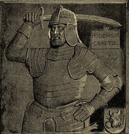 Tombstone of Melchior Balassa from The History of Hungarian Nation (published by Athenaeum in 1897 in Budapest, Hungarian language)Editor-in-Chief:Sándor Szilágyi, the drawing is reproducing a plaster-cast of the original tombstone. The original tombstone is in the church of Sološnica in Slovakia.